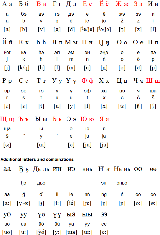 alphabet and pronounciations